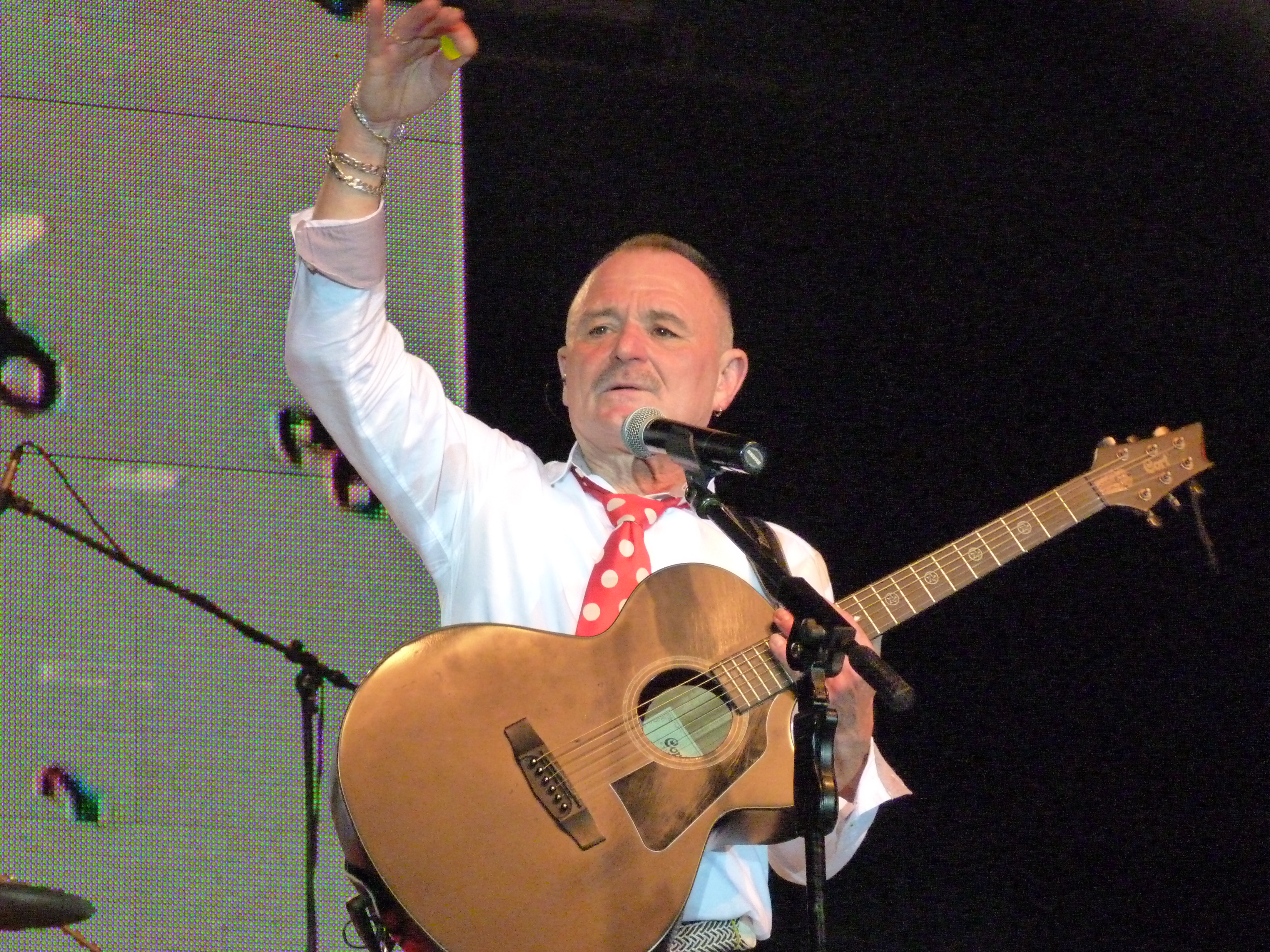 Live on the 16th of March, 2013. Budapest, the Petőfi Csarnok (PECSA, Petőfi Music Hall). Beatrice band celebrated its 35th birthday. Nagy Feró, Benkő László, Zselencz Zsöci László, Gidófalvy Attila. ©© Derzsi Elekes Andor, Budapest, 2013, You are authorised to use these photos and vids under Creative Commons – even for commercial, for profit purposes. Photos must be attributed to Derzsi Elekes Andor. All of the photos and vids in the Metapolisz DVD line are under Creative Commons and can be used even for commercial – for profit – purposes. Recommended Citation Derzsi Elekes Andor: Metapolisz DVD line A felvételek 2013. Március 16 –án készültek Budapesten, a PECSÁban. (Petőfi Csarnok, Petőfi Music Hall). Nagy Feró, Gidófalvy Attila. Magyar rockegyüttes. A Nagyvárosi Farkas, Utálom az egész huszadik századot, Tízezer lépés, Ha én szél lehetnék, Petróleum lámpa – Benkő László, Zselencz László.